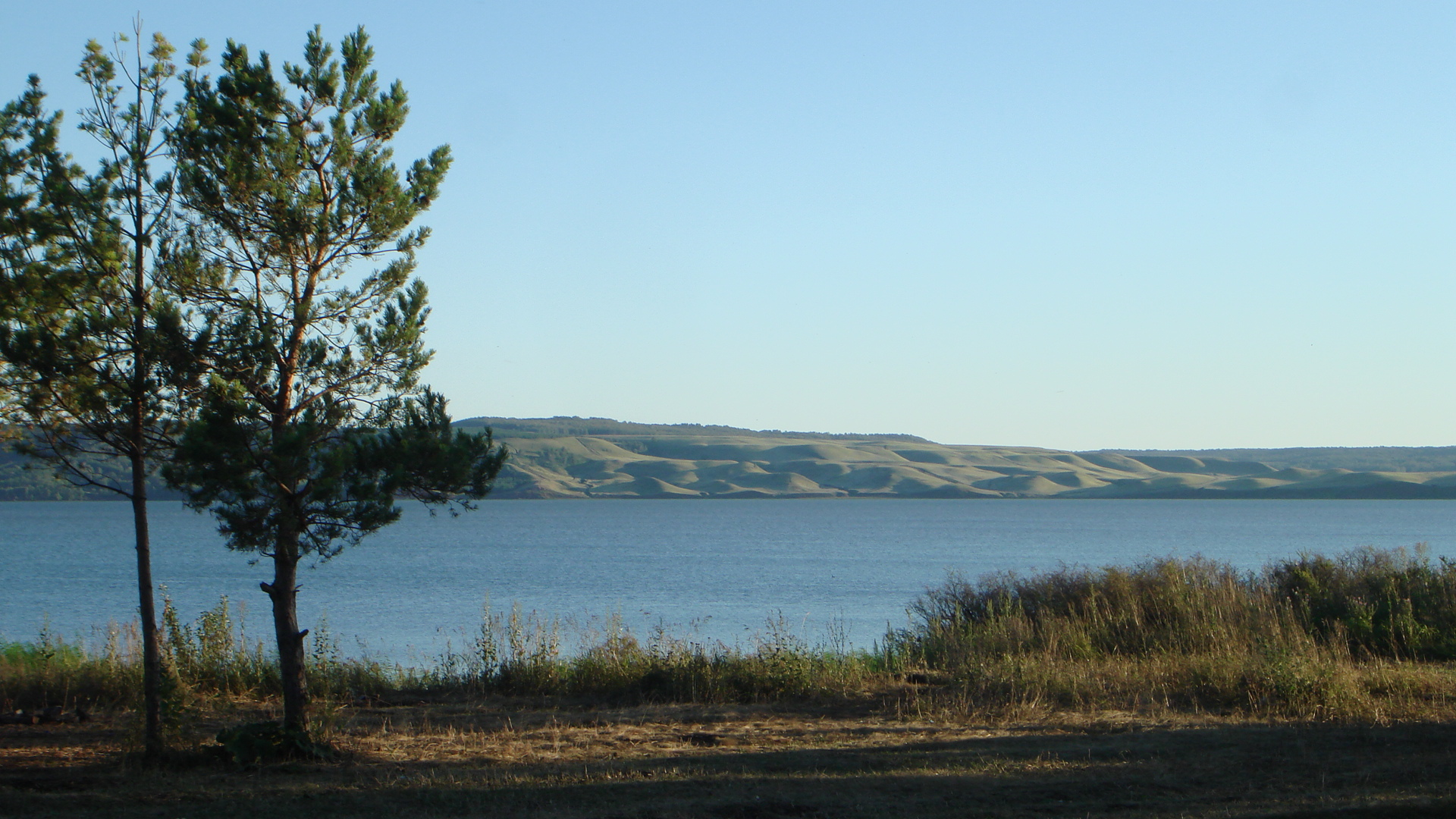 Lake Aslykul, Bashkortostan, Russia